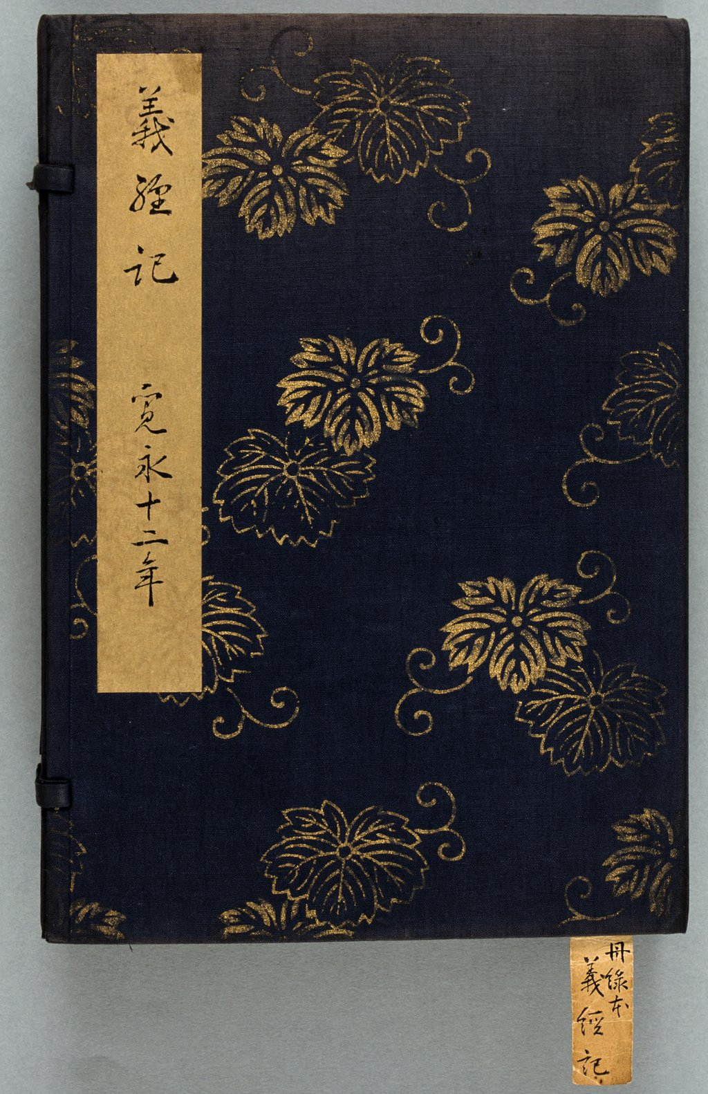 Gikei ki tells a fictional story based on the life of Minamoto Yoshitsune, a famous military commander of the 12th century. In the book, Yoshitsune’s elder brother Minamoto Yoritomo, the first shogun in the history of Japan, becomes suspicious of his younger brother’s ambition after his glorious victories in a series of battles. By order of Yoritomo, Yoshitsune is expelled from Kyoto, hounded, and finally forced to commit suicide. The tragic story of Yoshitsune has long been popular in Japan and was often described in novels and dramas going back to the Muromachi period (1336−1573). This book was published in 1635, after the old movable-type edition. It contains 66 illustrations, which are hand colored in red, green, and yellow. Japanese literature; Minamoto, Yoritomo, 1147-1199; Minamoto, Yoshitsune, 1159-1189